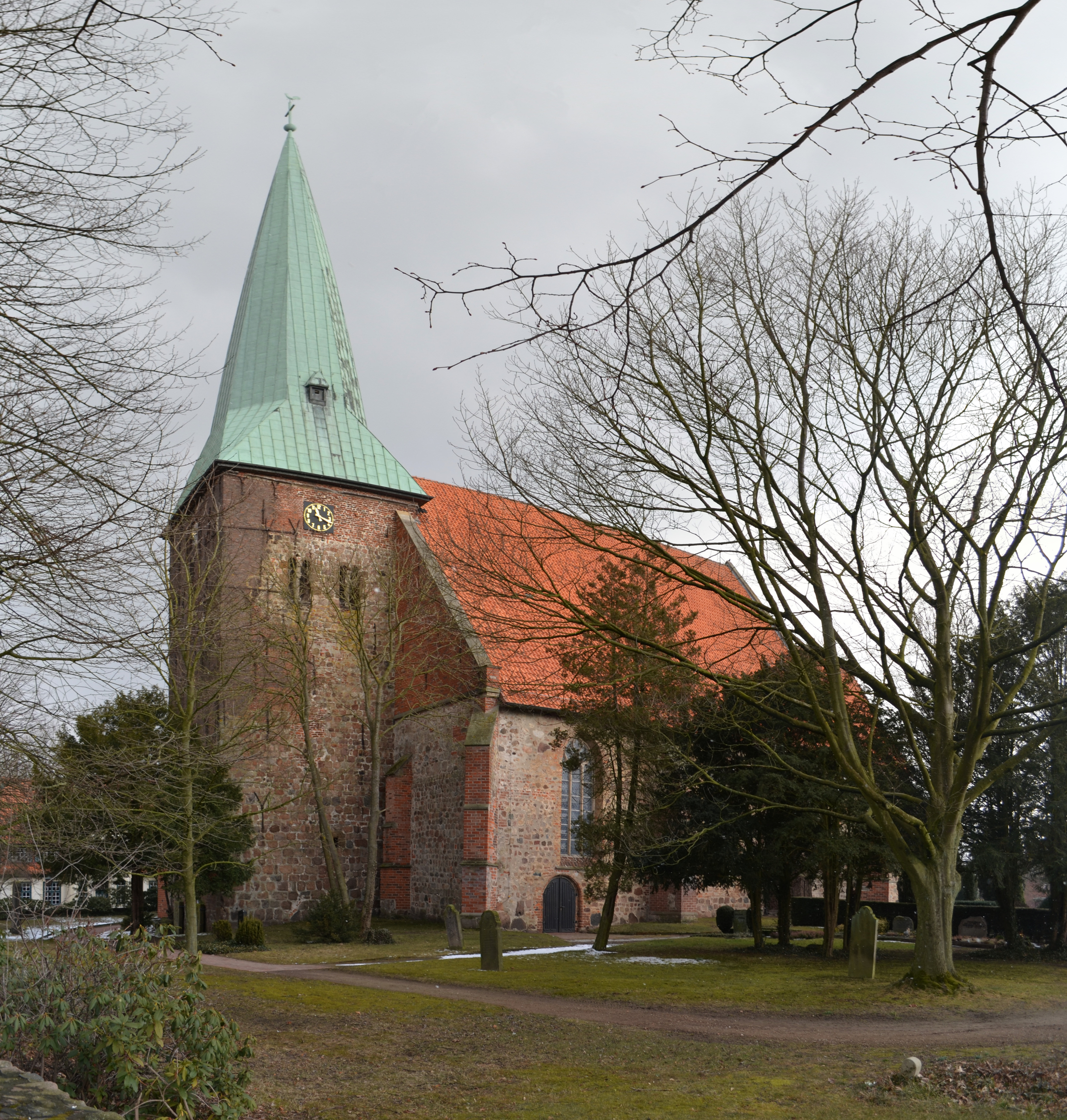 St. Cyprian und Cornelius Church in Ganderkesee, south-western aspect This image was created with Hugin